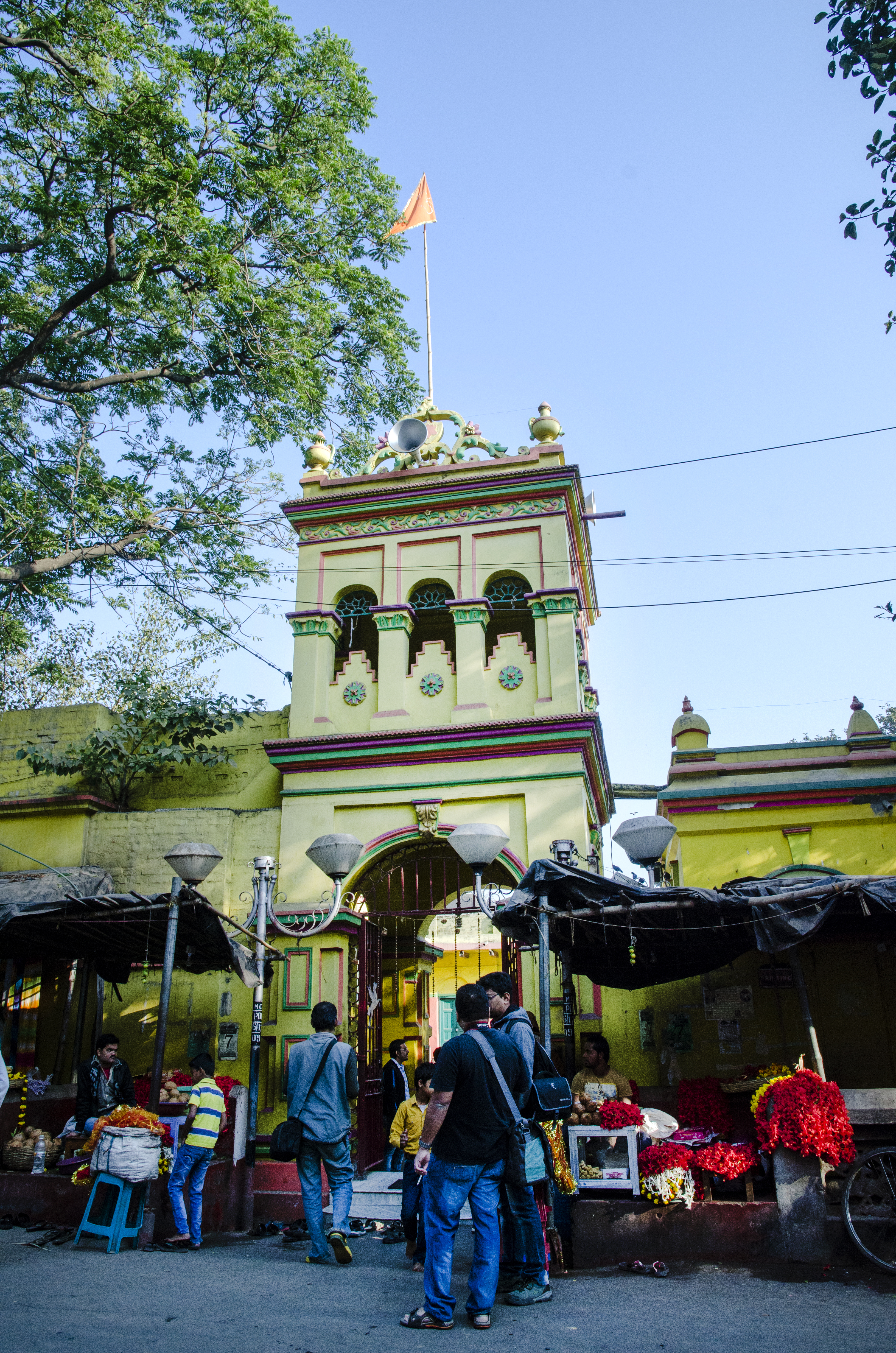 This Photographs was taken during Wikipedia Takes Kolkata VI Photowalk.